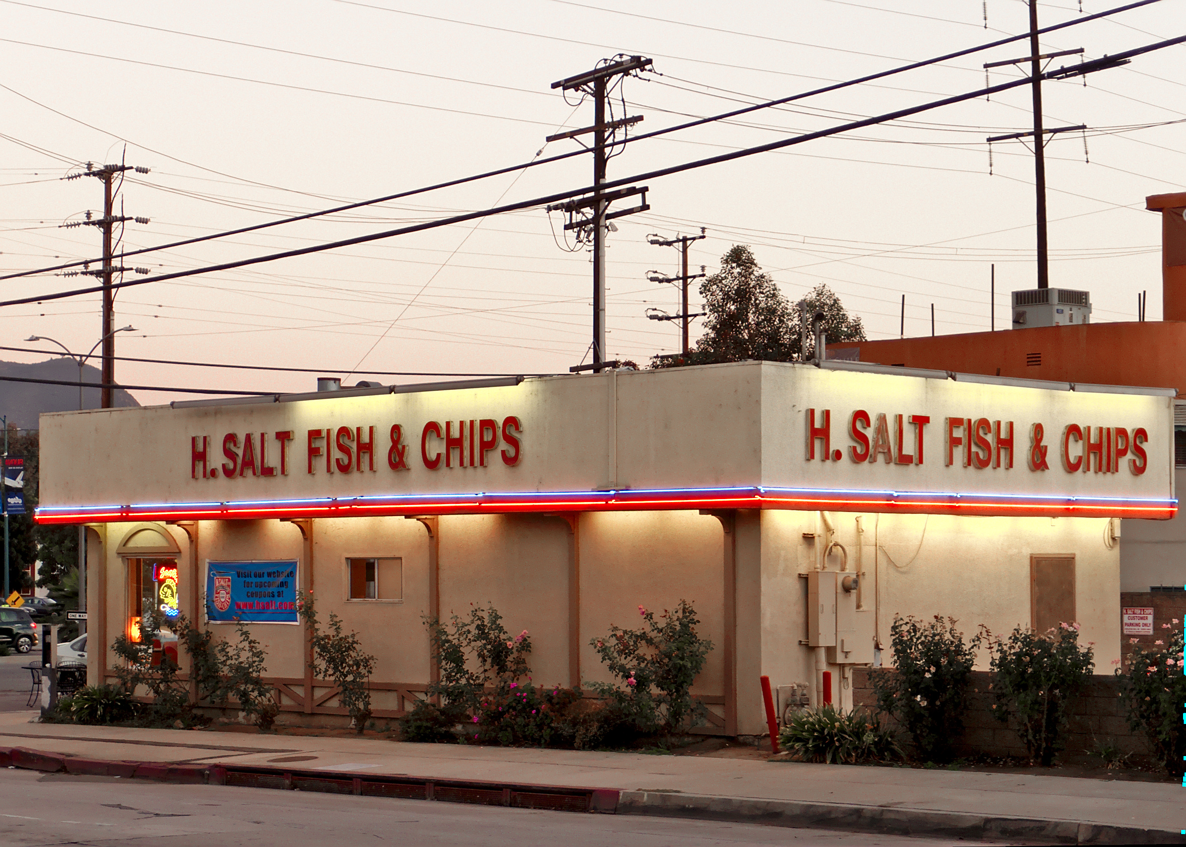 H. Salt Fish and Chips restaurant on Vineland Ave. in North Hollywood.